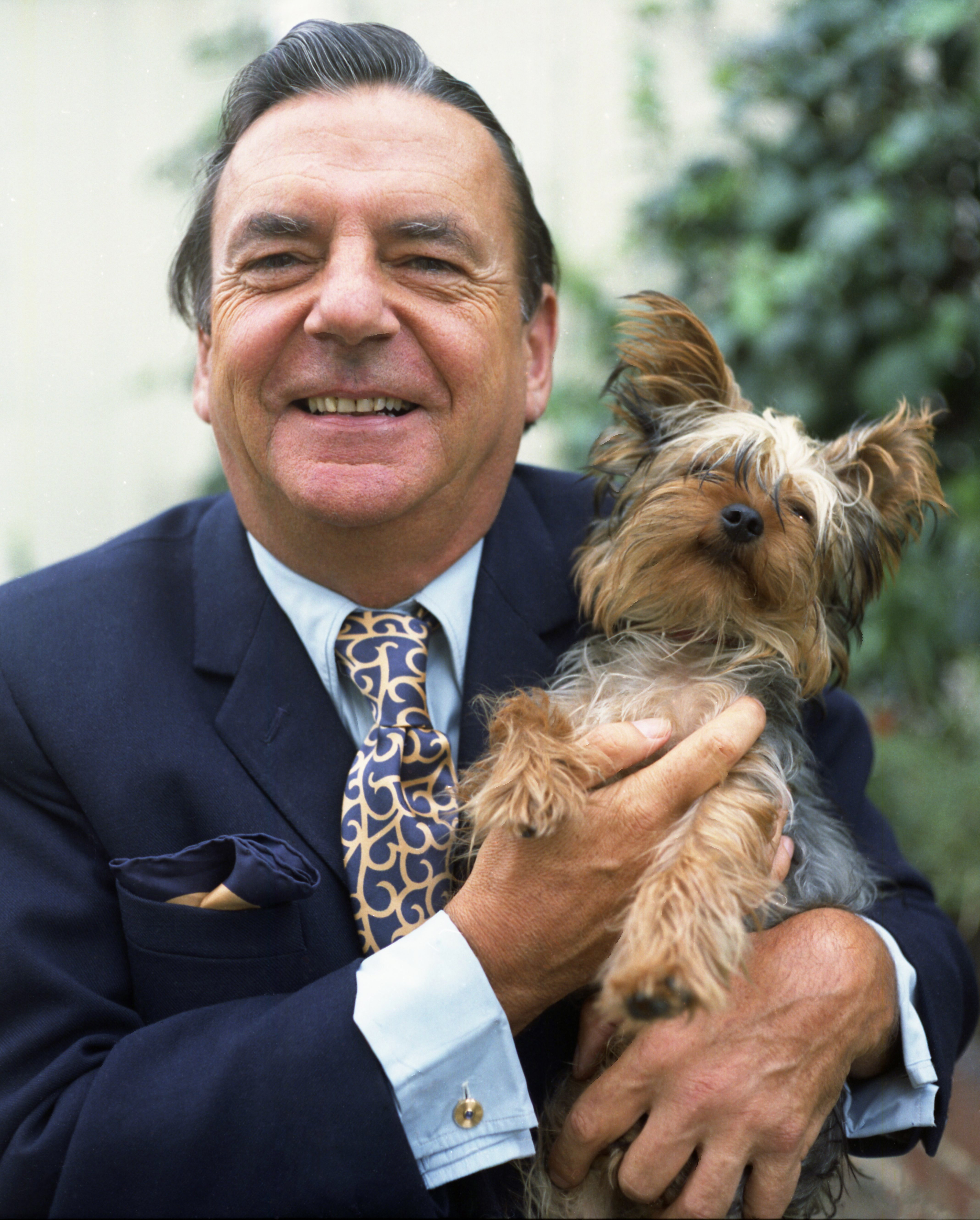 Robin Maugham, 2nd Viscount Maugham, with Albert (photographer's dog) in London